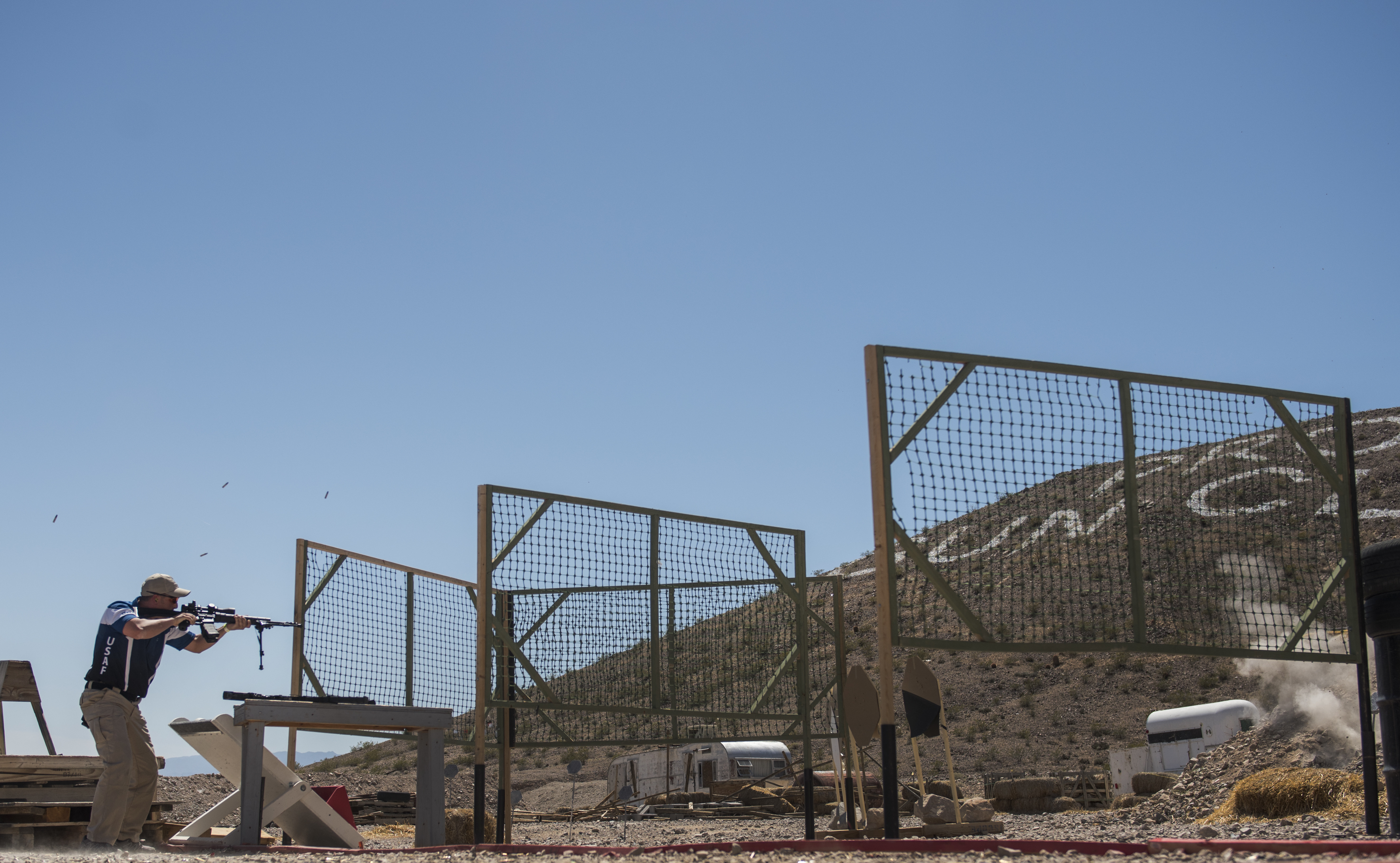 Eric Crostley during a rifle stage at the 2018 USPSA Multigun Championship in Boulder City, Nevada, April 21, 2018. Competitors attempt to move as quickly as possible through stages and are judged on overall time and accuracy.